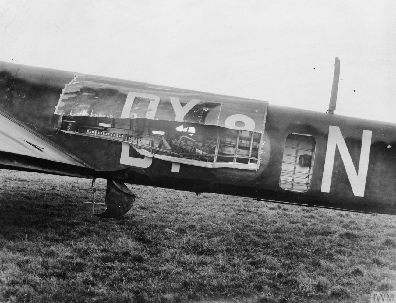 Royal Air Force Bomber Command, 1939-1941. The damaged port-side fuselage of Armstrong Whitworth Whitley Mark V, P5005 'DY-N', of No. 102 Squadron RAF, after returning from a bombing raid to the Ruhr on the night of 12/13 November 1940. While trying to locate Cologne marshalling yards, the aircraft was hit by anti-aircraft fire, detonating a flare which, in turn, blew open a 15-foot section of the fuselage. Despite this damage, the pilot, Flying Officer G L Cheshire, managed to fly the aircraft and crew safely back to base at Linton-on-Ouse, Yorkshire. for which he was awarded the DSO.